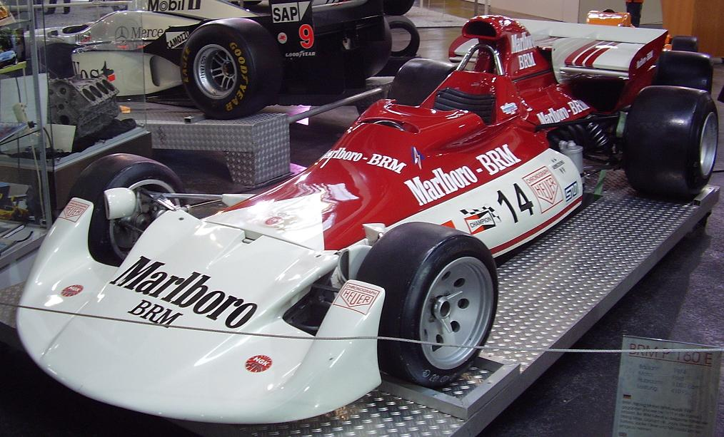 Marlboro - BRM P180 3.0 litre V12 Year: 1972 at the Sinsheim Auto & Technik Museum (Sinsheim / Germany The P160E sign does not refer to this car.